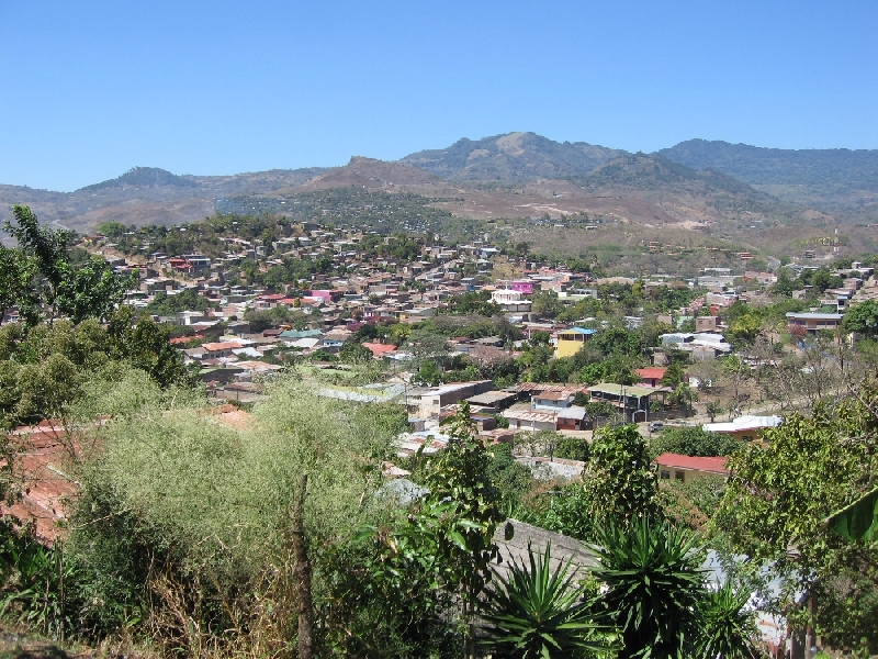 Matagalpa Nicaragua